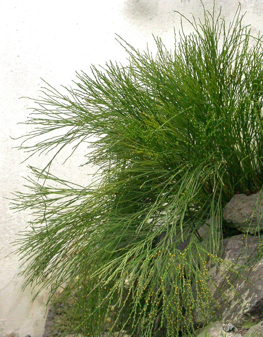 Psilotum nudum in Botanical Garden Liberec, Czech republic